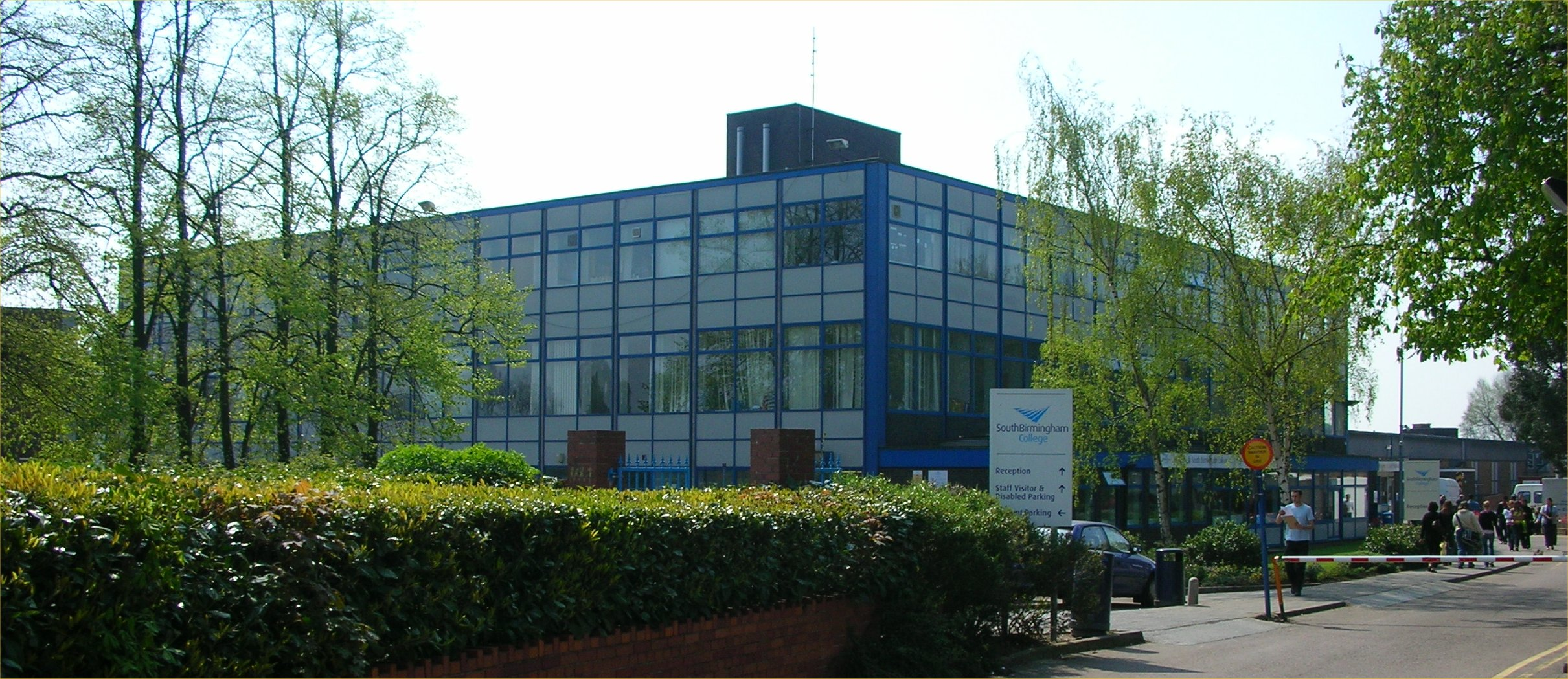 South Birmingham College, Hall Green Campus, Hall Green, Birmingham, England. Photographed by me 20 April 2007. Oosoom